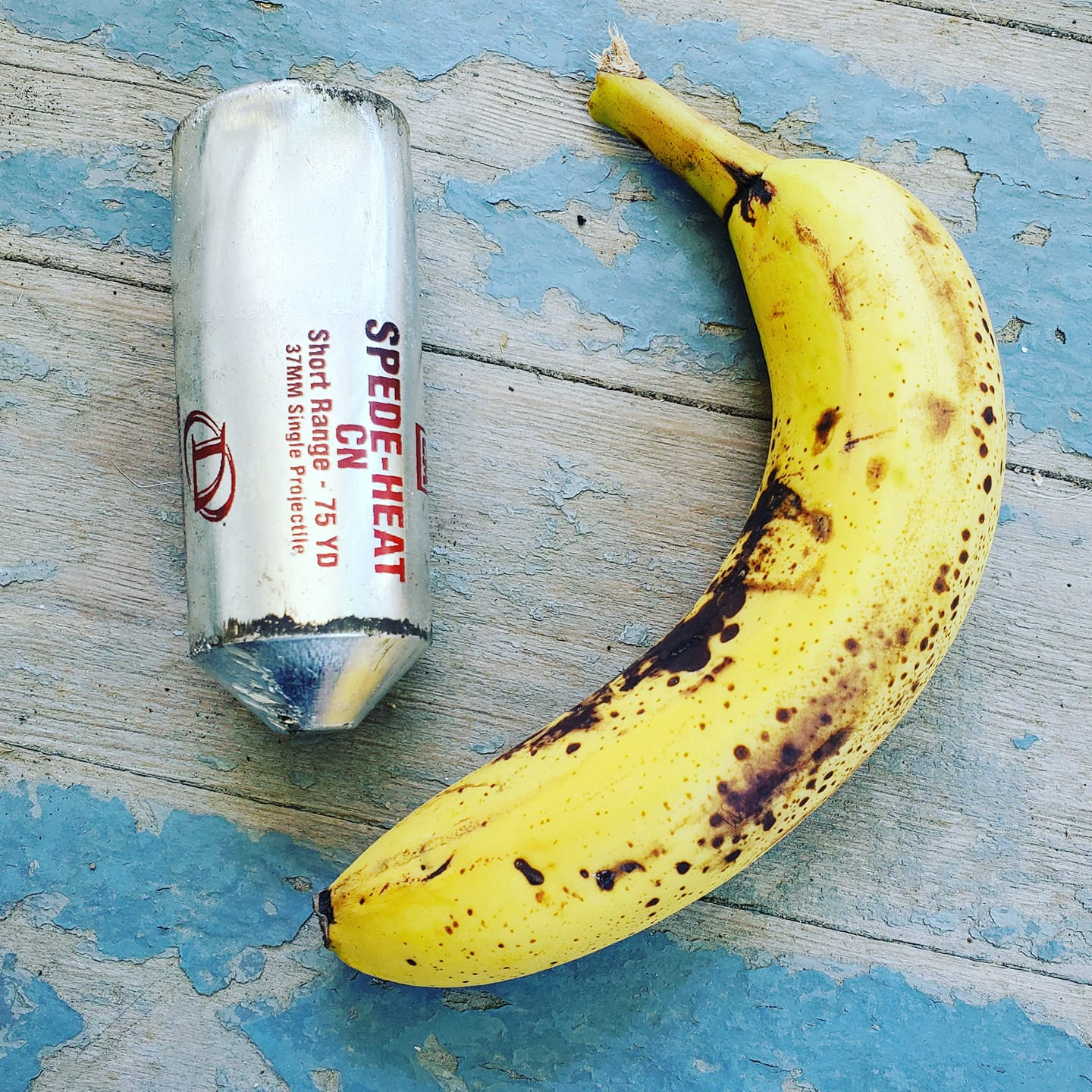 This is a police projectile found the morning of June 1st, 2020 on the south sidewalk of O St between 16th and 17th street in Lincoln, Nebraska. A banana has been included for scale.